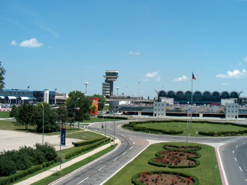 Airport Exterior 2